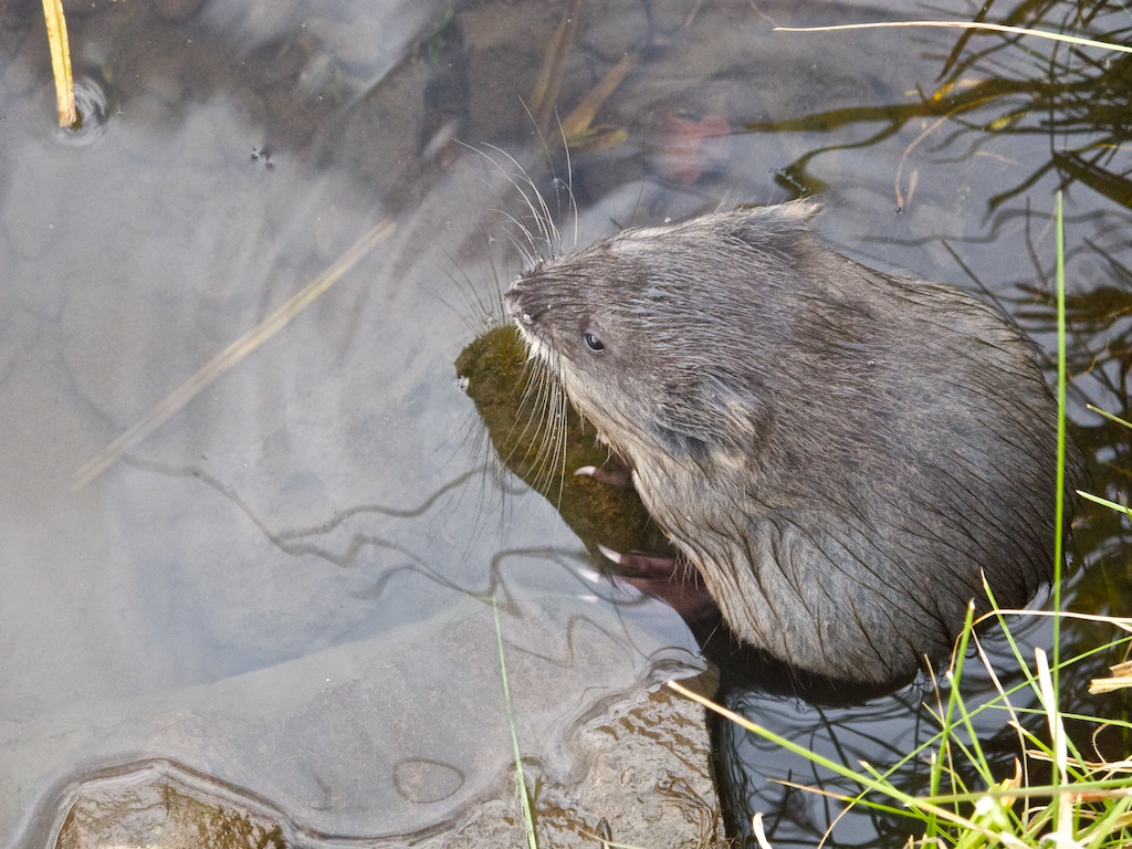 Baby Muskrat at Trout Lake